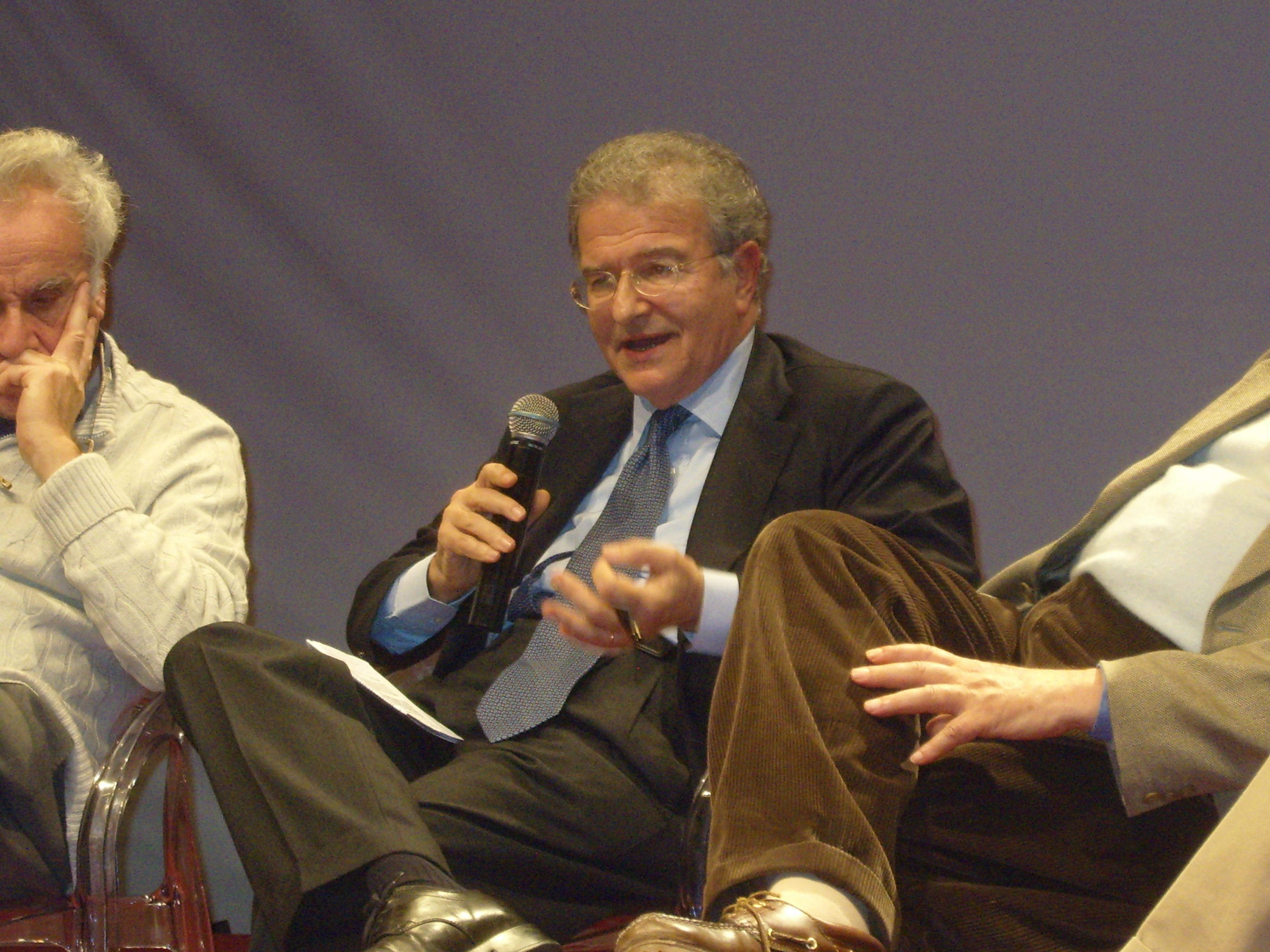 Fabrizio Cicchitto, Italian politician